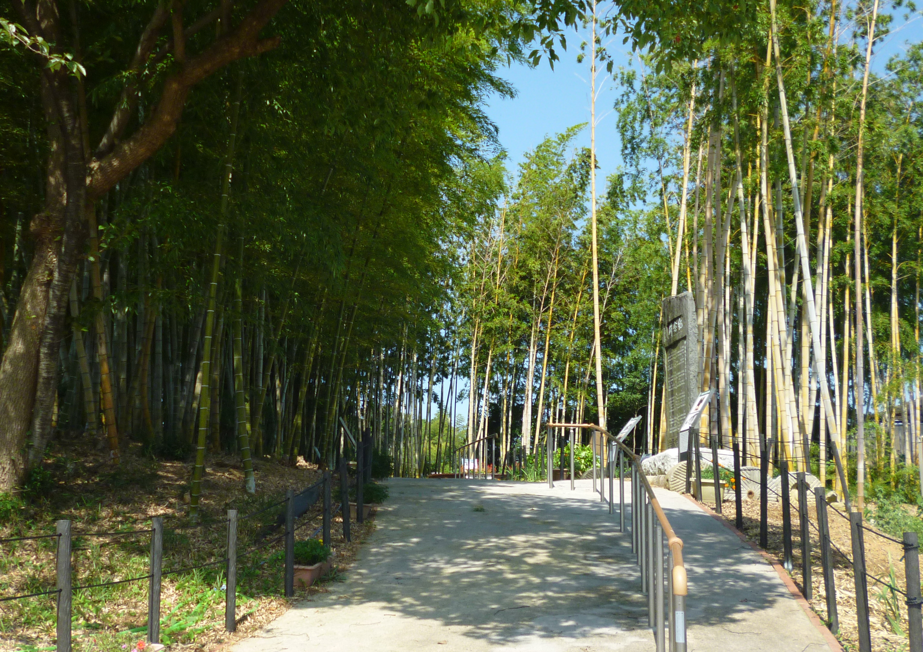 Karasune Historical Park in Handa, Aichi, Japan.